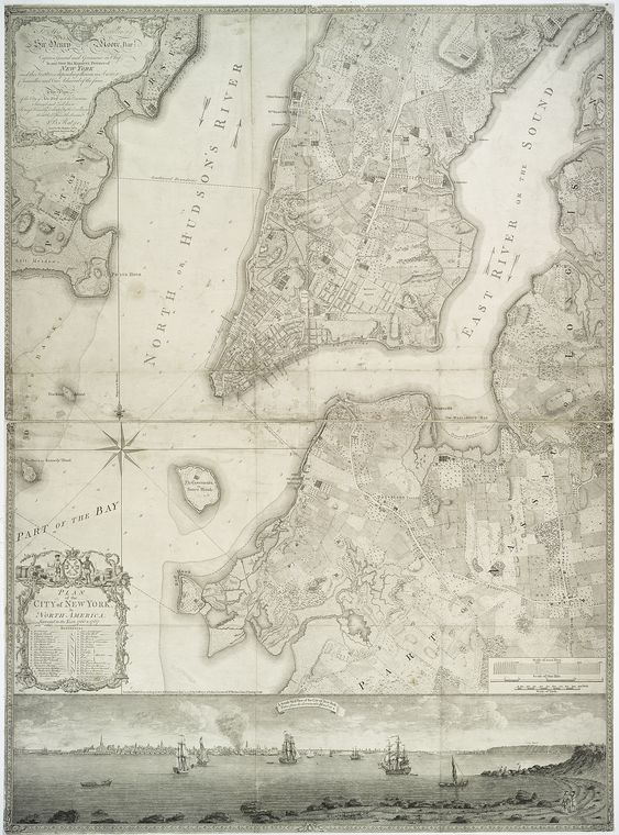 Dedication: To His Excellency Sir Henry Moore, Bart., Captain General and Governour in Chief In and Over His Majesty's Province of New York and the Territories depending thereon in America, Chancellor and Vice-Admiral of the same, this Plan of the City of New York and its Environs, Survey'd and laid down, Is most Humbly Dedicated by His Excellency's Most Obedt. & Humble servant, B. Ratzer, Lieut, in His Majesty's 60th or Royal American Regt. Additional Name(s): Jefferys and Faden, London -- Publisher Moore, Henry, Sir, 1713-1769 -- Dedicatee Notes: Print bears dedication to Sir Henry Moore. Note 2.) Print contains 25 lettered and 10 numbered references. Note 3.) Print contains small view: A southwest view of the city of New York, taken from the Governours Island at. Note 4.) Print issued January 12, 1776.